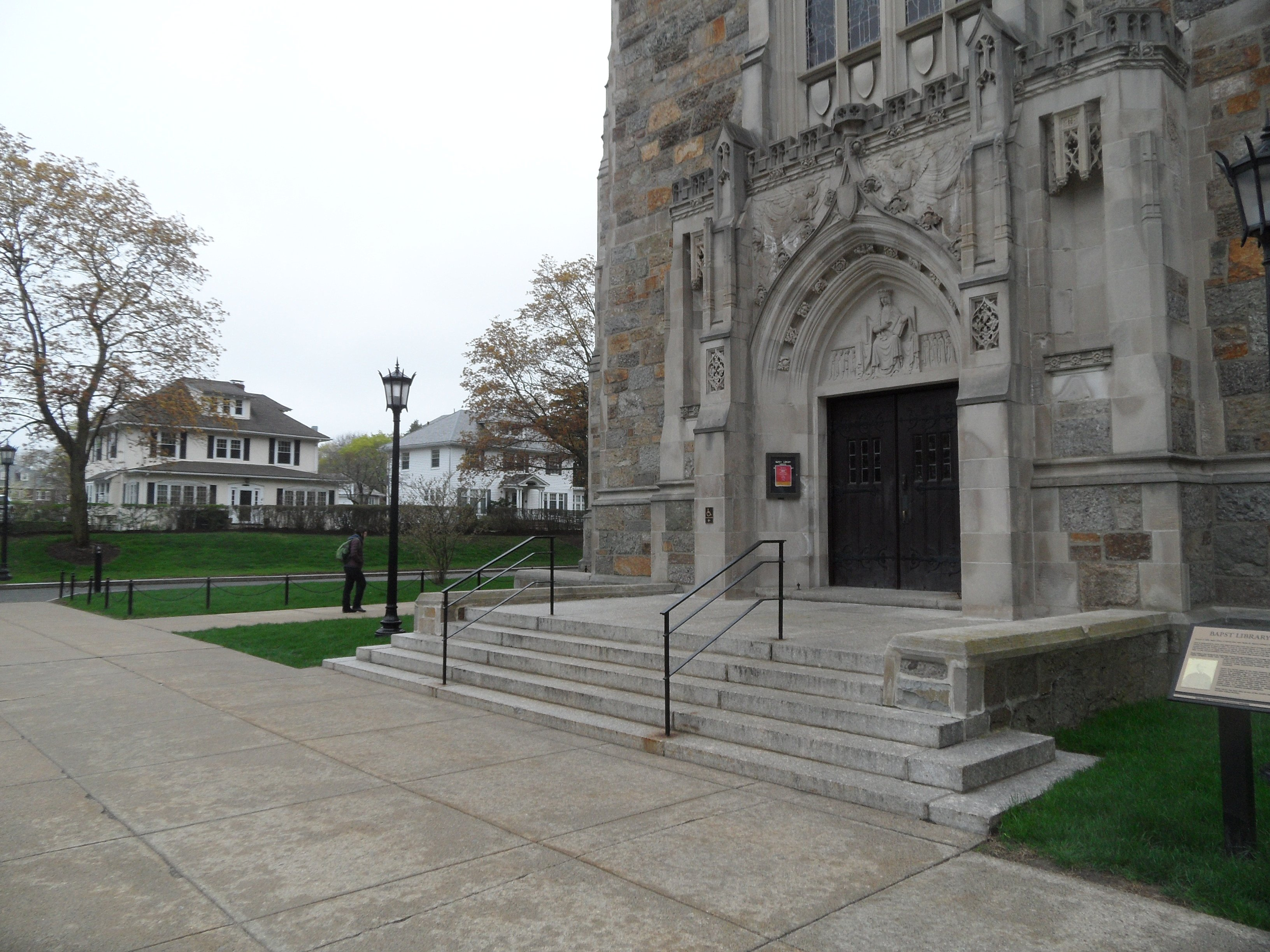 Newton, MA: Boston College, Bapst Library, main door on south side; in April 2019